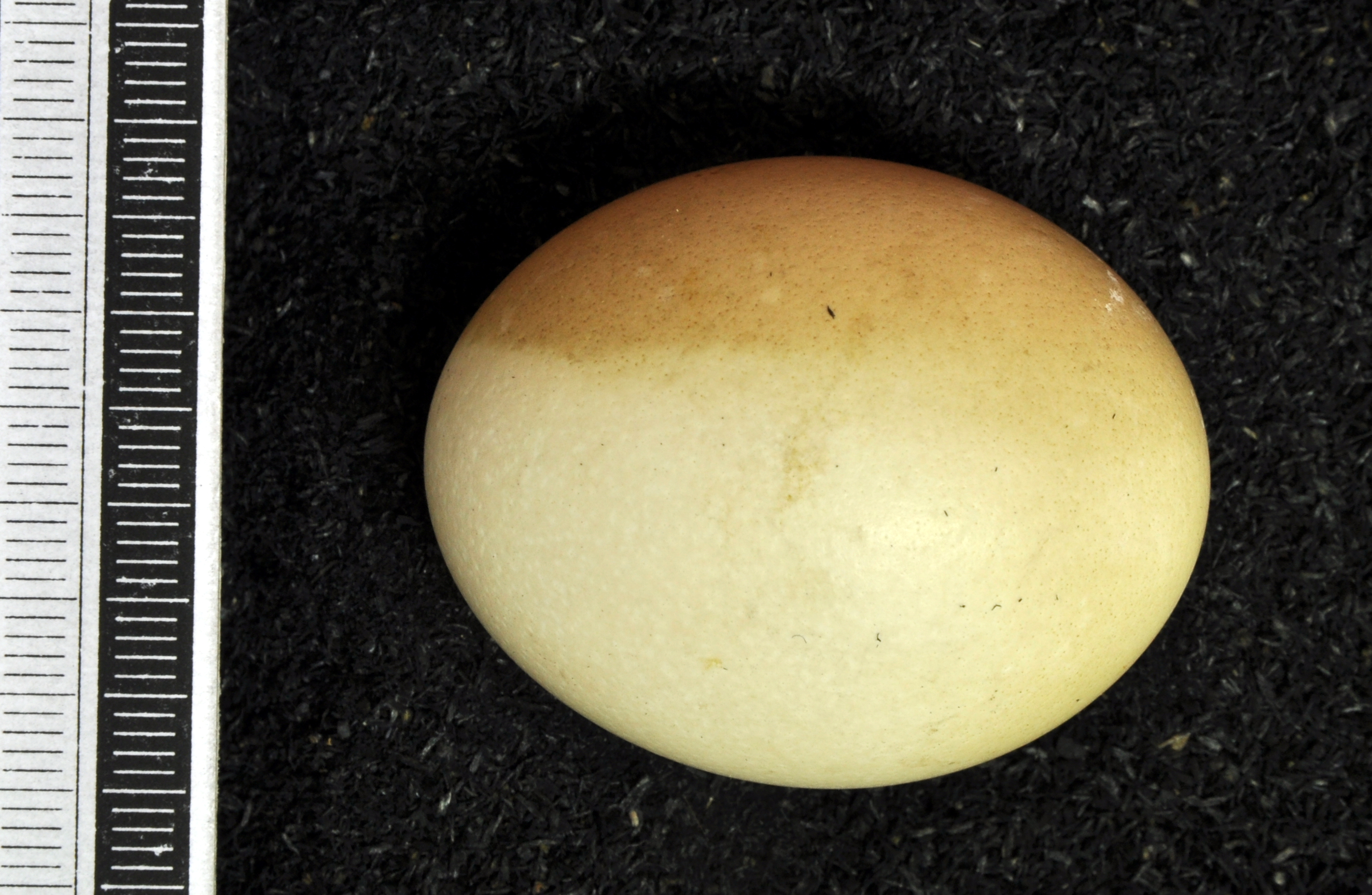 Galloperdix Galloperdix spadicea , egg, Coll. Museum Wiesbaden